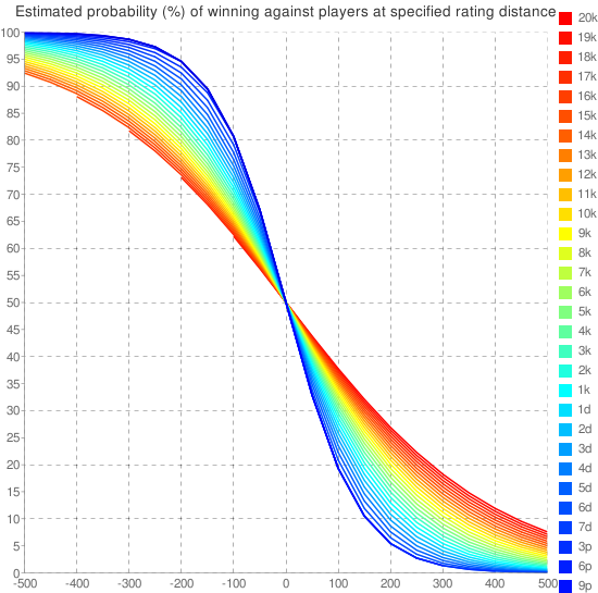 A graph showing how the estimated winning probabilities as calculated by the EGF rating formula vary depending on the nominal rank of the player.